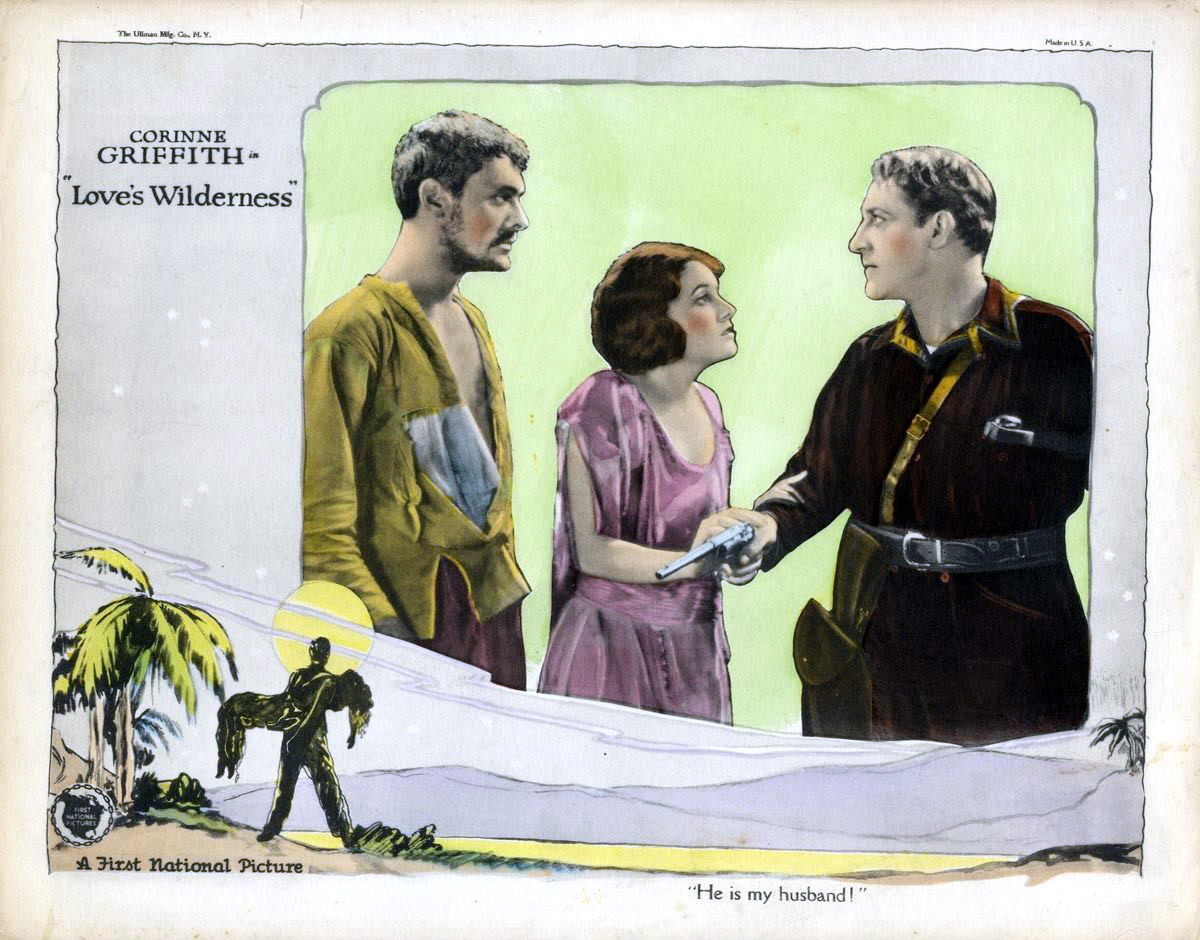 Lobby card for the American romantic drama film Love's Wilderness (1924).